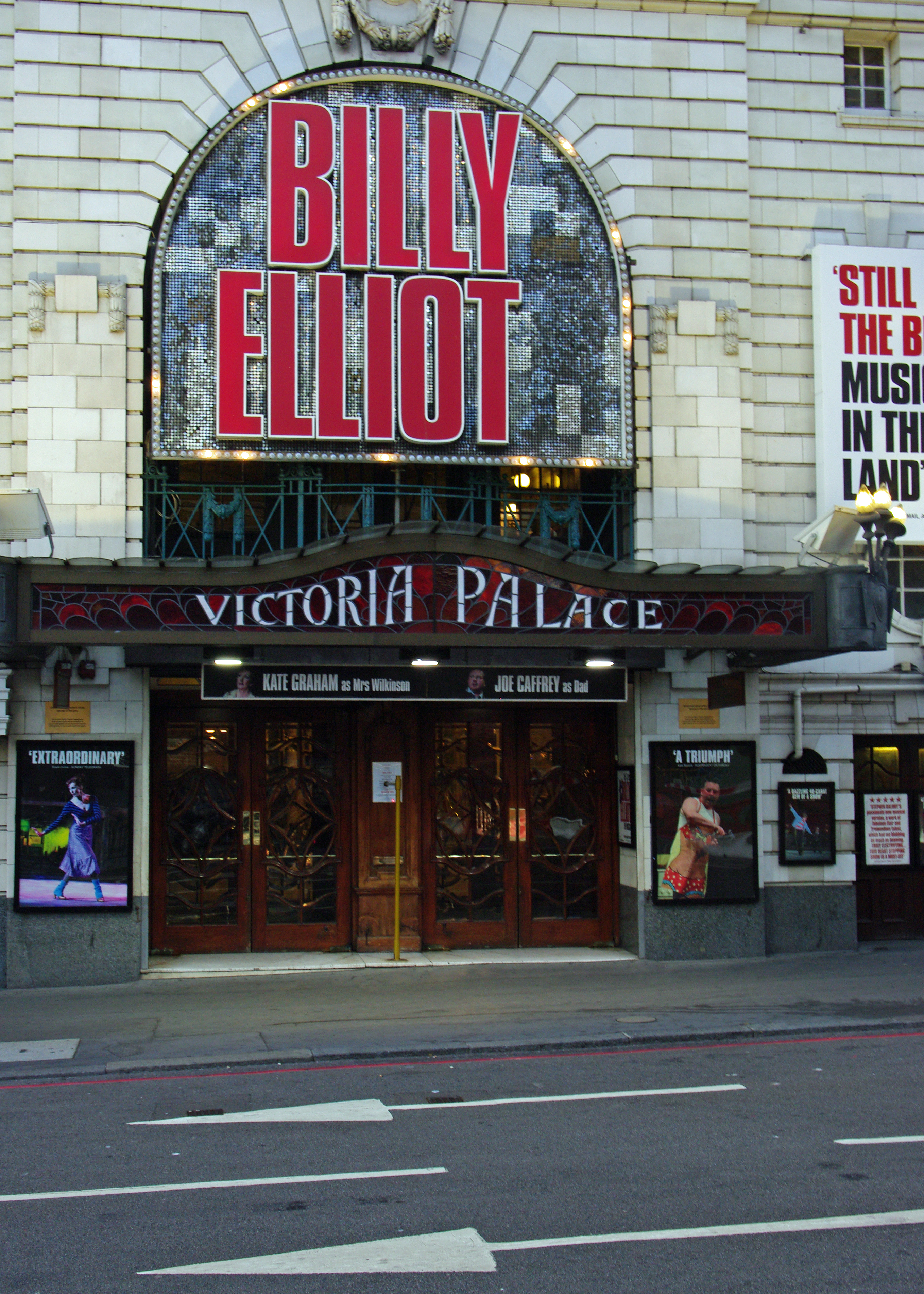 Front entrance to the Victoria Palace while showing Billy Elliot.